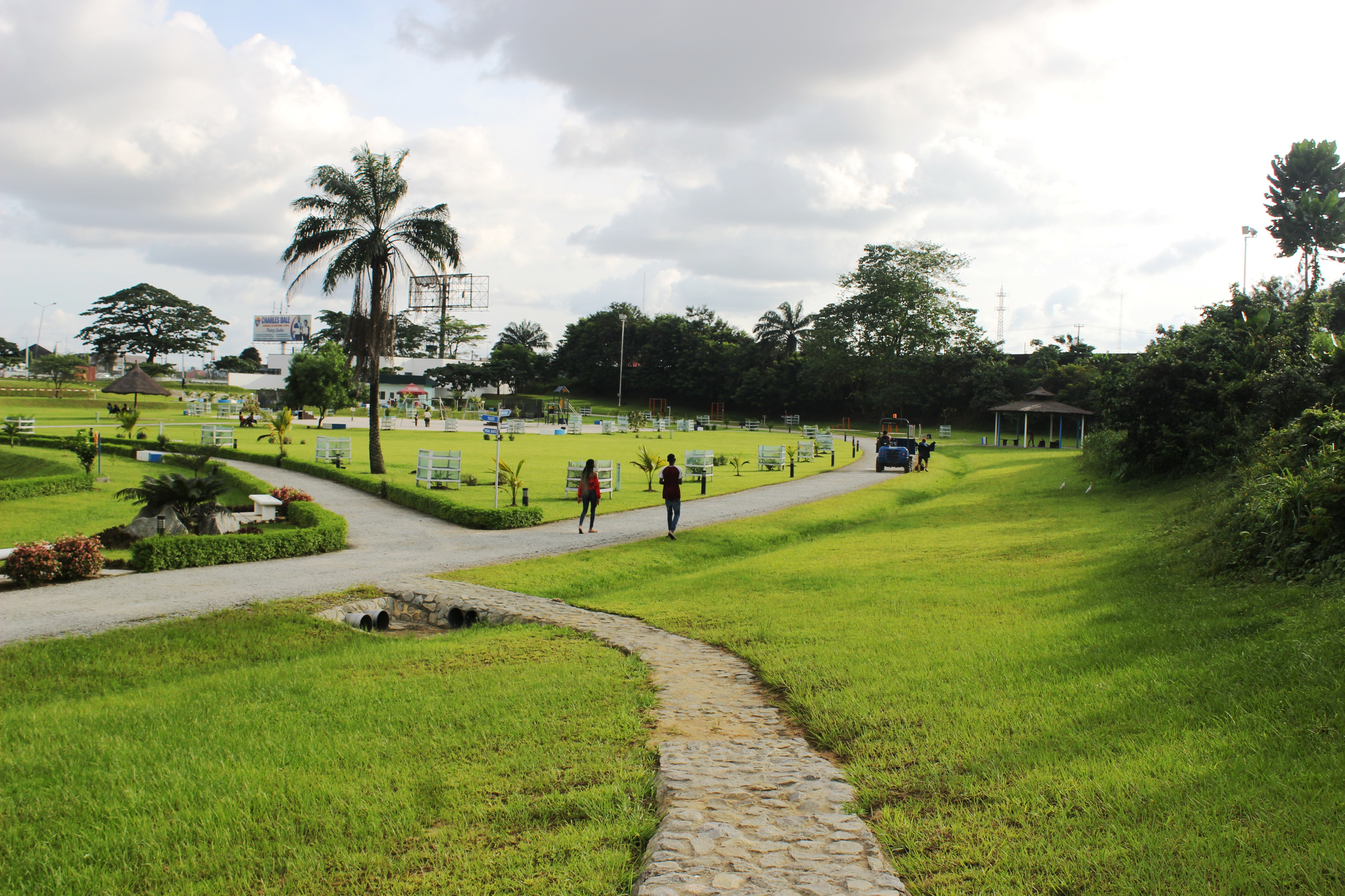 Port Harcourt Pleasure Park - Talking a walk to a section of the park